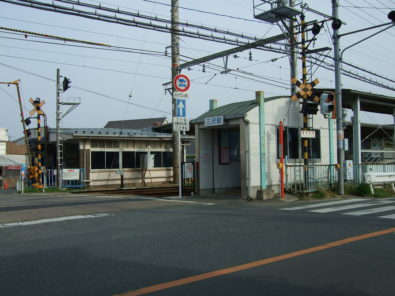 Mitsusawa Station, Nishitetsu Tenjin Omuta Line.